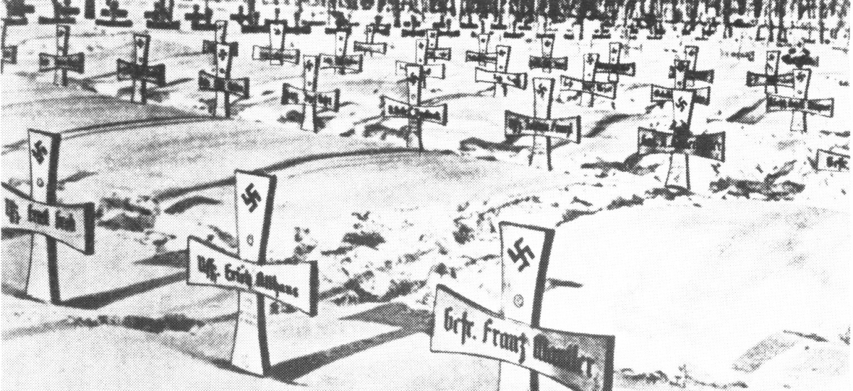 German graves in Russia